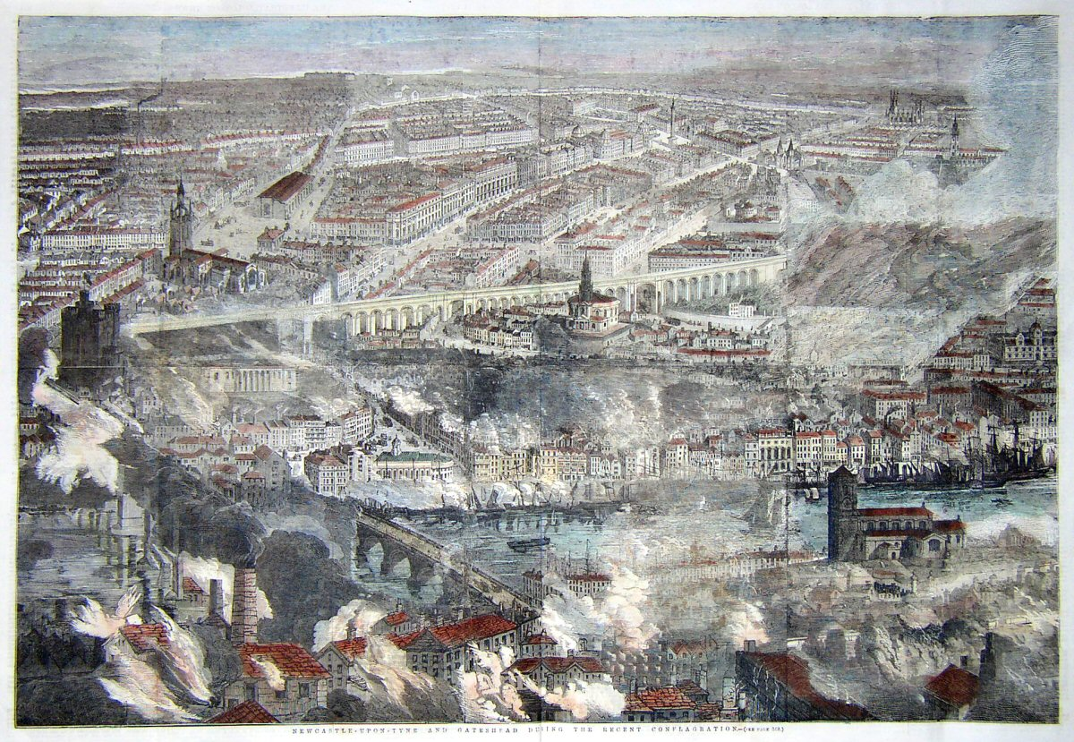 from the Illustrated London News, 14th October 1854